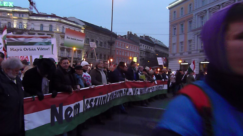 Live on the 21st of January, 2012. Budapest, Hungary. Bayer Zsolt. We, hungarian democrats, who trust in the democratic values of a civil society, the independance of our nation.( Peace March for Hungary 2012.01.21 (4) 1.55) Bayer Zsolt: We support this goverment. Our message to Europe: We will not be a colony ! Here are our polish friends: Long Live Poland ! ("Ország – világnak üzenjük mindannyian: Ez a kormány nincsen egyedül. (Viktor Viktor, Viktor). Mi már akkor Európába vágytunk, amikor onnan negyven évig ki voltunk szorítva. De üzenjük most, innen, ennek az Európának: soha nem leszünk gyarmat" - mondta Bayer Zsolt). ( Peace March for Hungary 2012.01.21 (4) 1.55) Published under Creative Commons in the Metapolisz DVD line. A felvétel 2012. Január 21 –én, szombaton készült Budapesten, a Kossuth téren. A békemenet megérkezett a Kossuth térre, ahol már sokan voltak. Bencsik András egy dobozon áll, beszél a felvonulókhoz. Bencsik mögött a Néprajzi Múzeum (korábbi Kúria) épülete és az Alkotmány utca.( Peace March for Hungary 2012.01.21 (4) 1.55). Közzétéve Creative Commons alatt a Metapolisz DVD sorozatban.